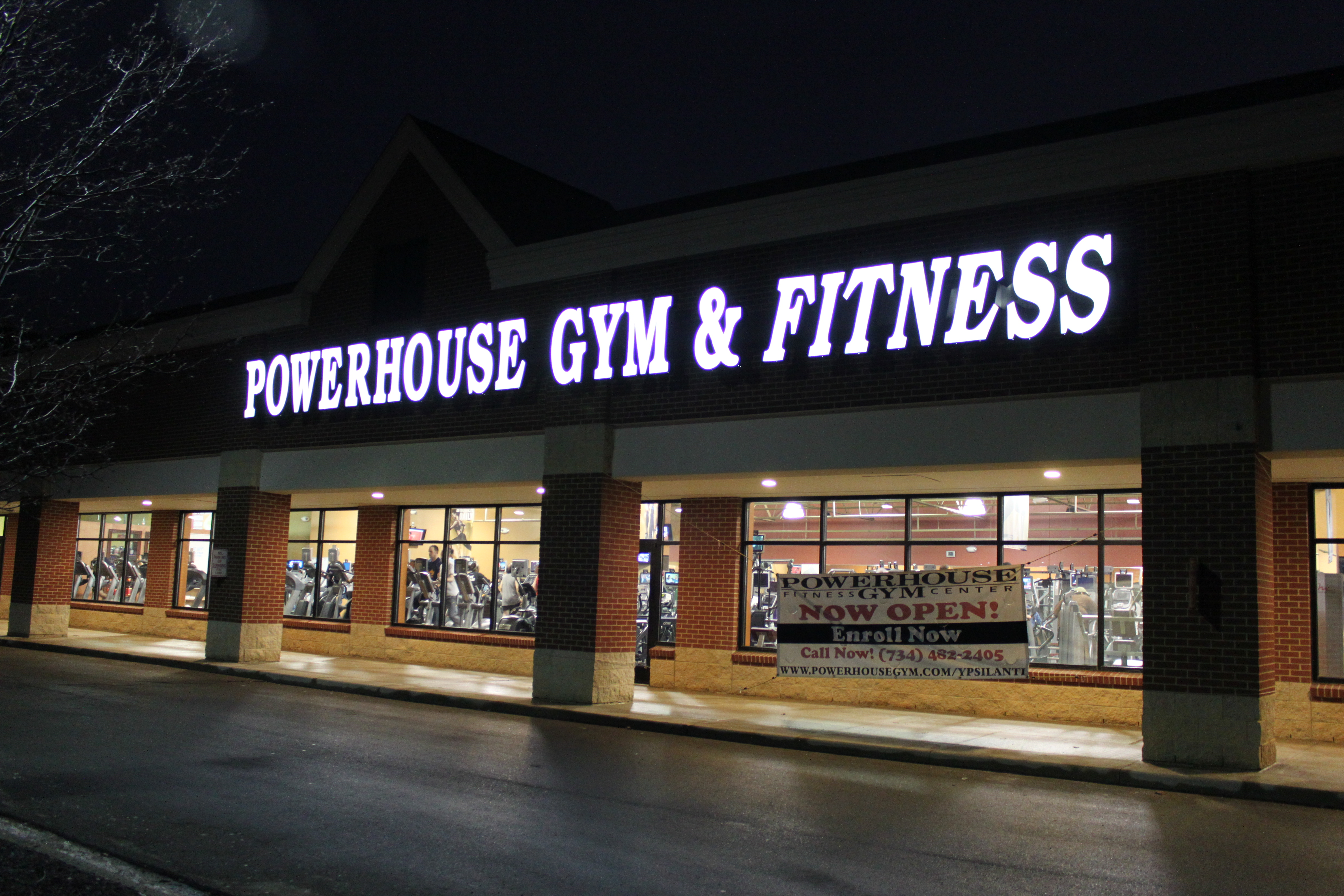 Powerhouse Gym & Fitness, 1326 Anna J. Stepp, Ypsilanti, Michigan